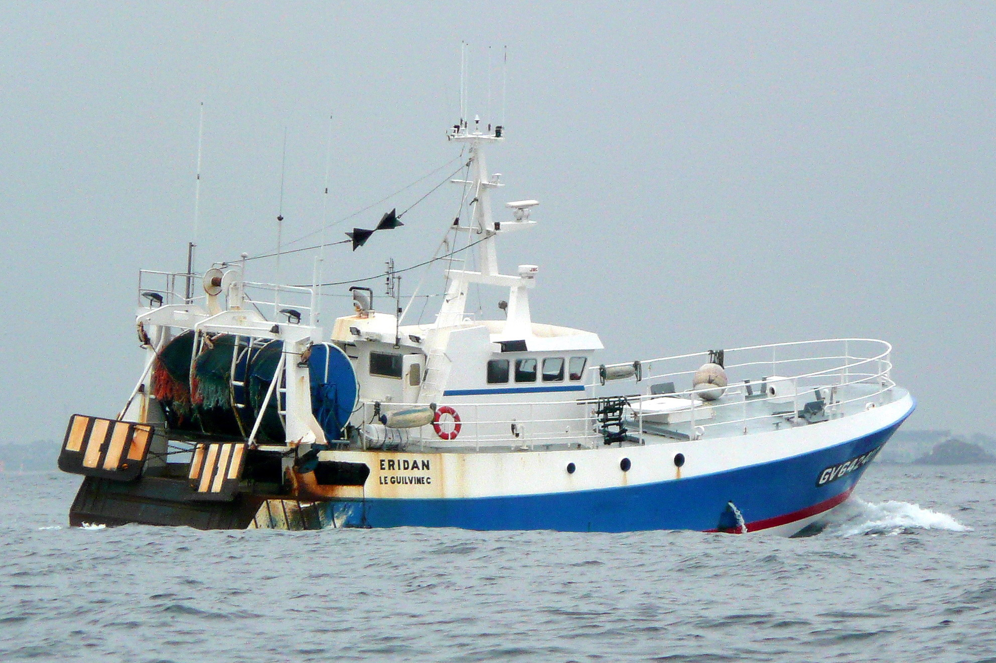 Trawler Eridan of the harbour of Le Guilvinec near the pointe of Penmarch (Britanny, France)